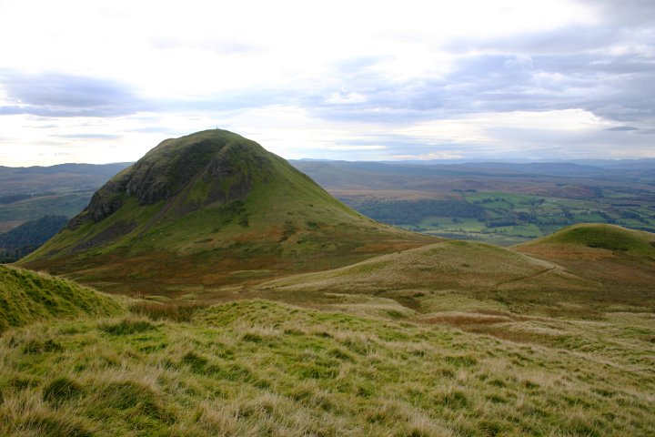 Photo of Dumgoyne from the east